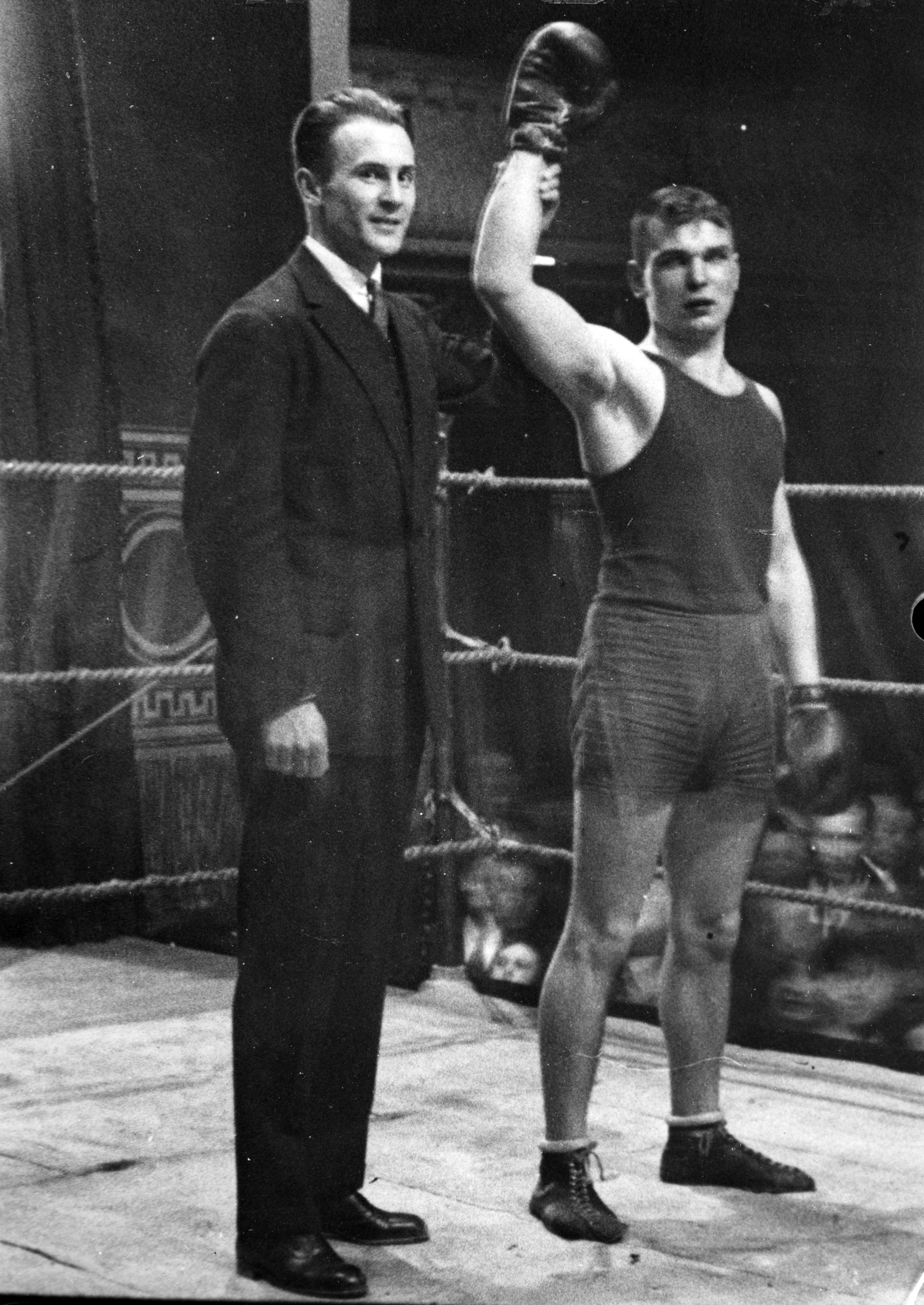 Kazimierz Laskowski as boxing Referee in 1930